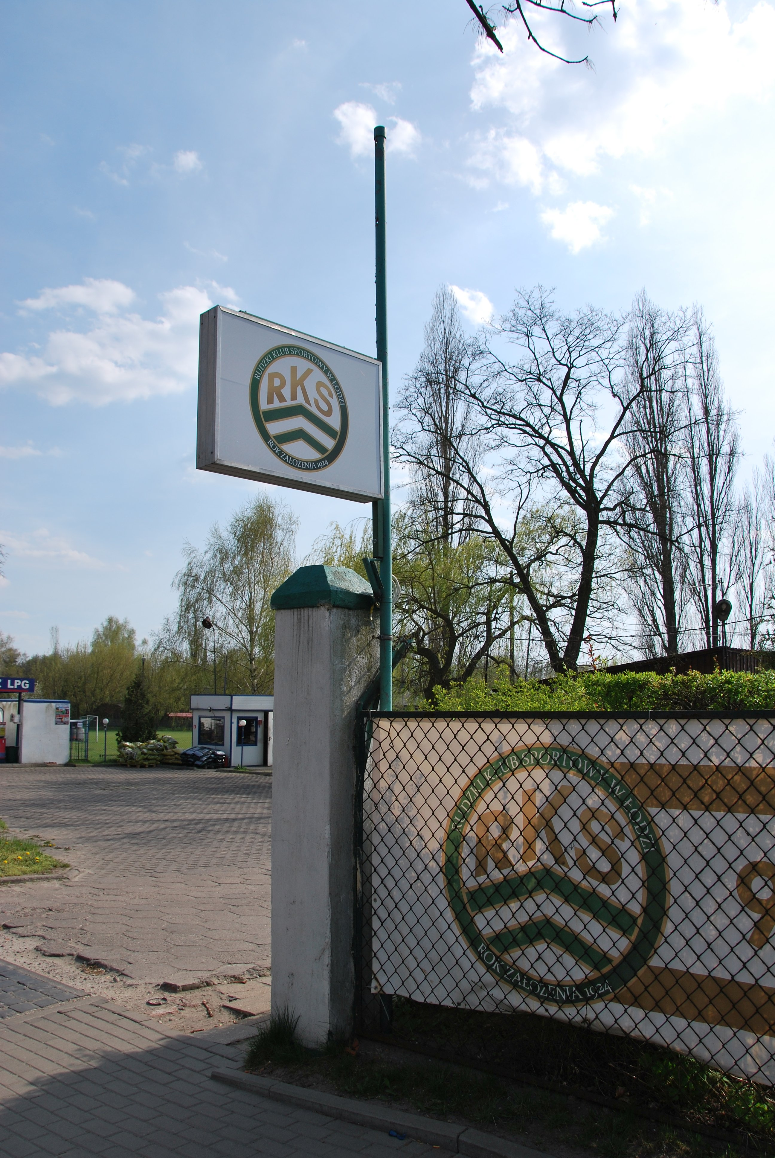 RKS Łódź sportsclub logos, Rudzka Street